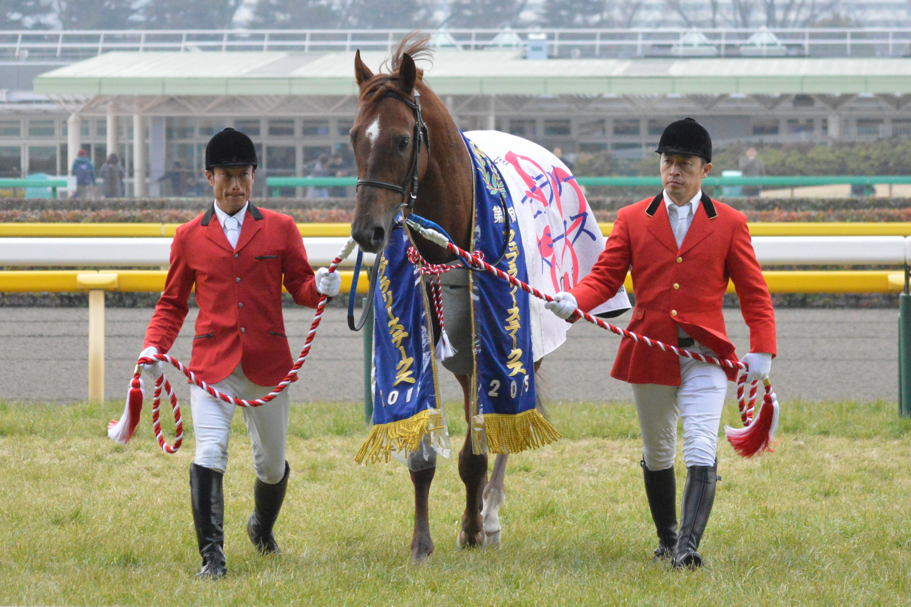 Japanese race horse Copano Rickey at Tokyo racecourse. Tokyo (JPN) 22 Feb 2015 February Stakes (Grade 1) (4yo+) (Dirt) 1m Standard RankHorse NameOddsAgeWgtTrainerJockey1stCopano Rickey (JPN)11/10FH59-0Akira MurayamaYutaka Take2ndIncantation (JPN)128/10H59-0Tomohiko HatsukiHiroyuki Uchida3rdBest Warrior (USA)54/10H59-0Sei IshizakaKeita Tosaki4th - 16th/omission